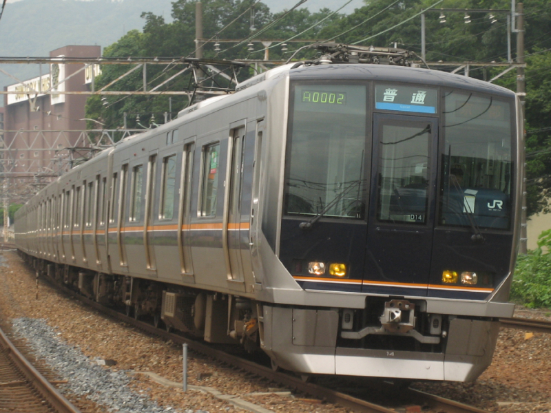 West Japan Railway 321 series EMU, shot from Yamazaki Station in Oyamazaki Town, Kyoto Prefecture